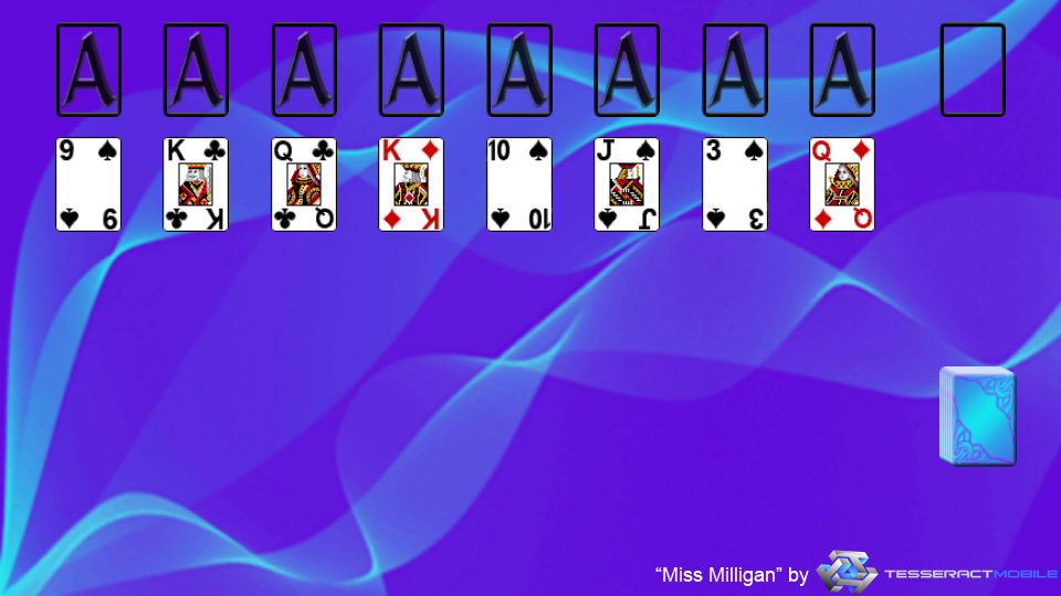 This image is a screenshot of the solitaire game "Miss Milligan". More information about this game or this photo can be found on this website